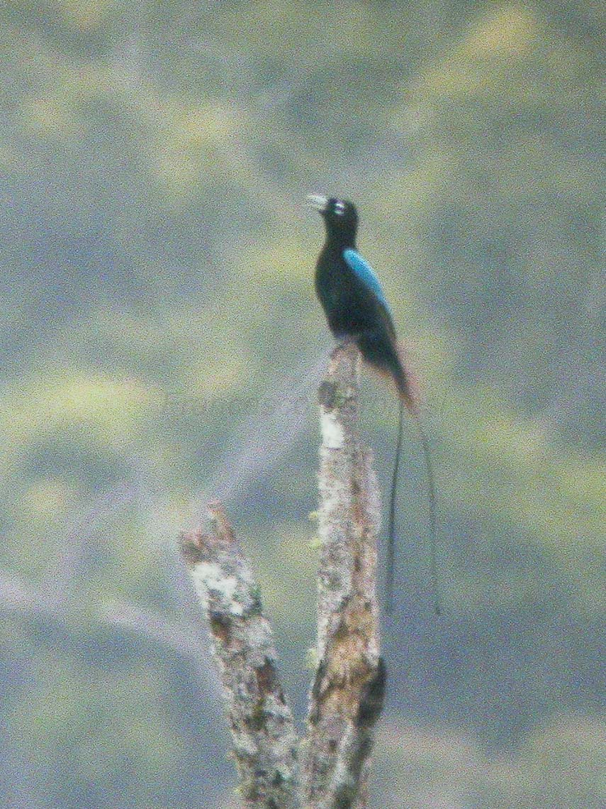 Blue Bird-of-paradise Paradisaea rudolphi, Papua New Guinea